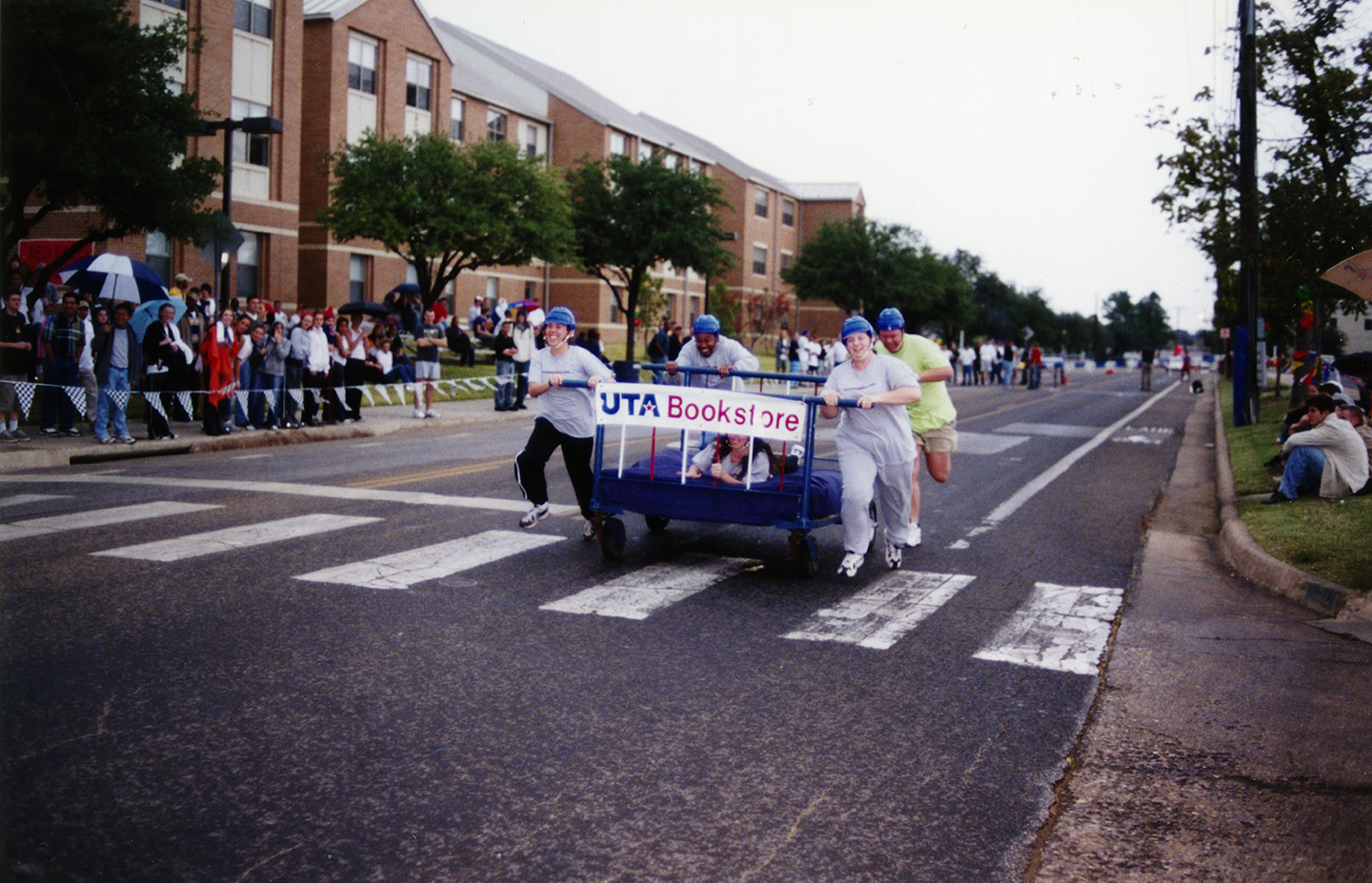 University of Texas at Arlington bed races to raise funds for charity; UTA Bookstore entry.